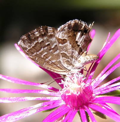 Cacyreus marshalli Butler, 1898